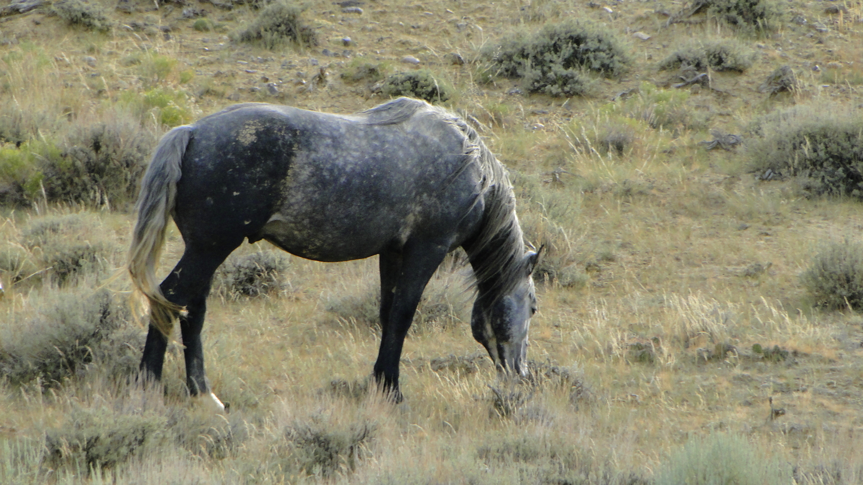 Wild horse. Red Desert (Wyoming)